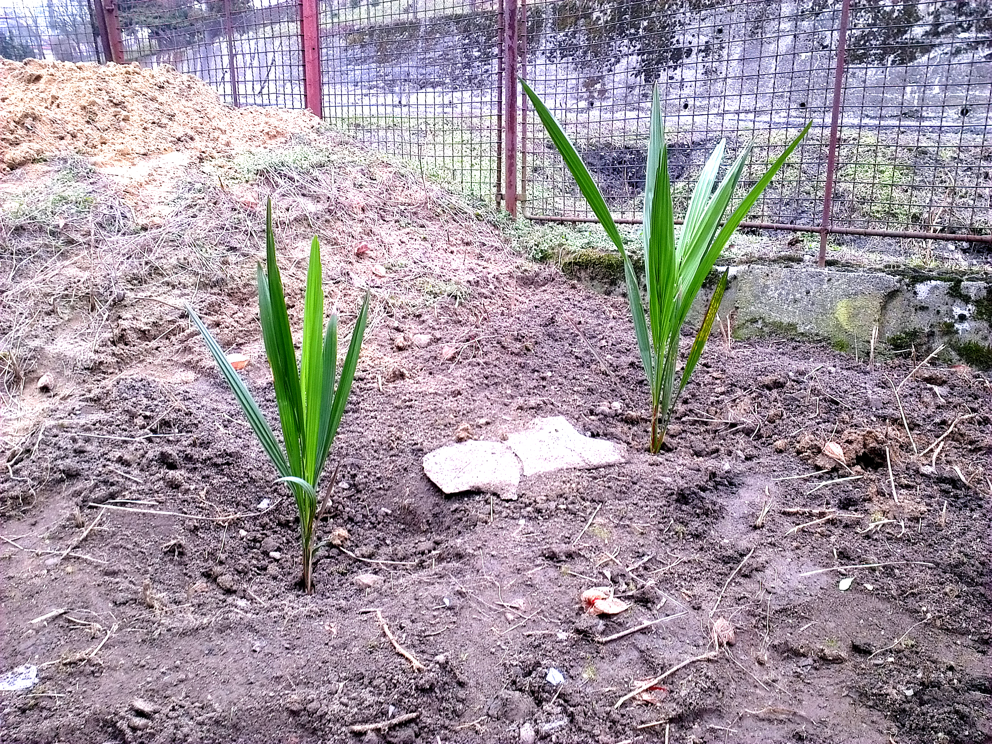 Freshly planted Jubaea chilensis trees (beginning of March, Czech Republic), ~4 years old plants Česky: Právě zasazené palmy Jubaea chilensis (počátek března, Česká Republika), ~4 roky staré rostliny